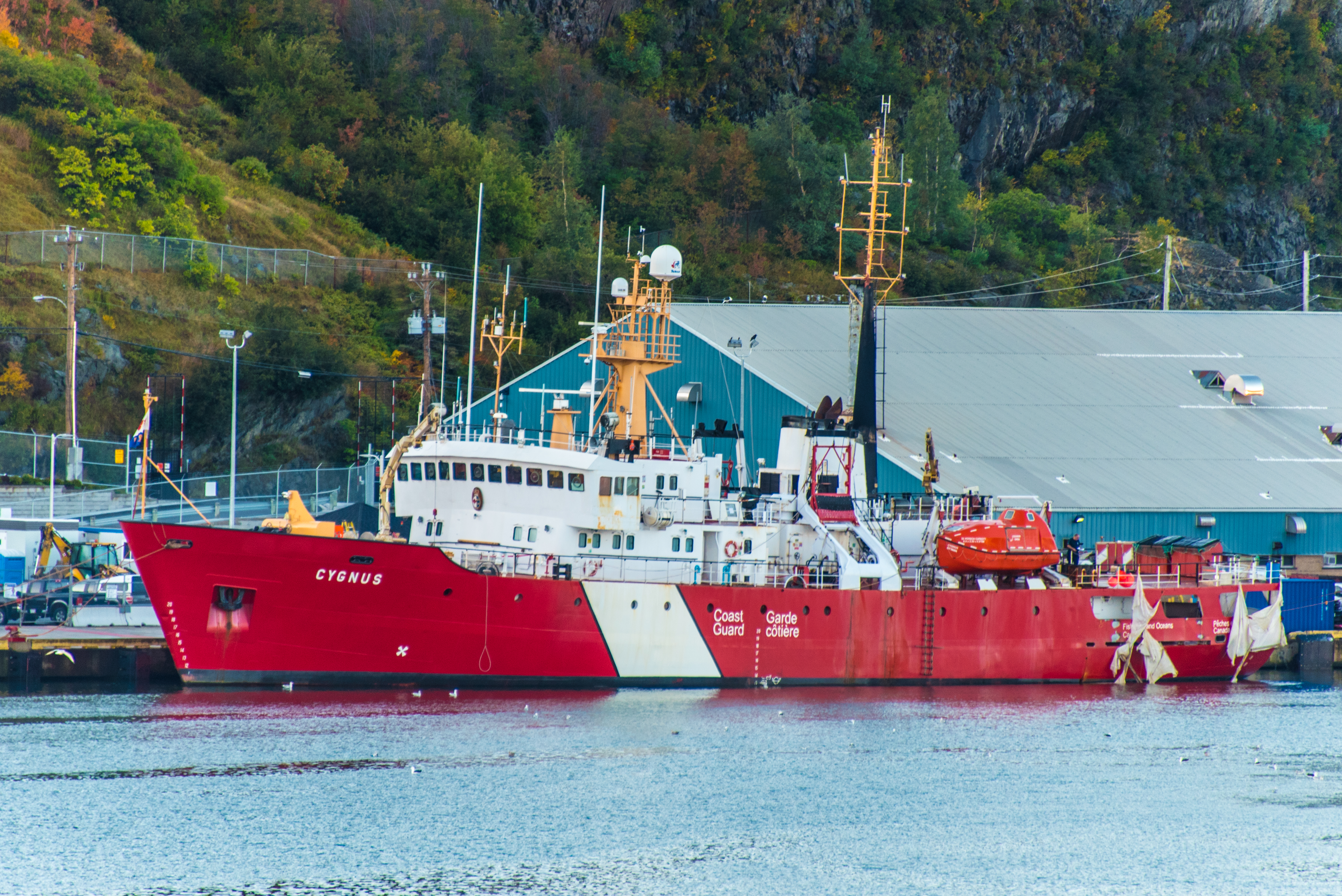 Canadian Coast Guard offshore patrol vessel, CCGS CYGNUS - IMO 7927831, at CGS base in St. John's Harbor, Newfoundland on October 7, 2017.